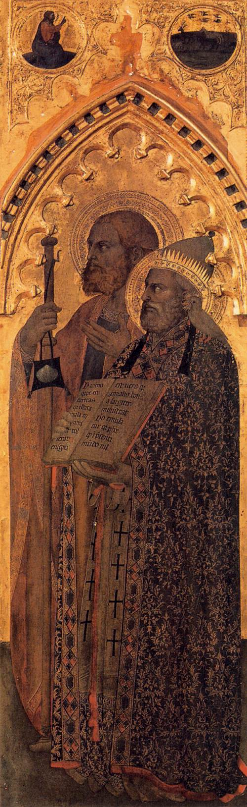 GIOVANNI DA MILANO. Ognissanti Polyptych: lateral panel, Saints James the Greater and Gregory. Tempera on wood, 133 x 41 cm. Galleria degli Uffizi, Florence